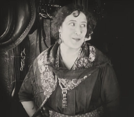 Rosita Marstini in Blood and Sand - cropped screenshot